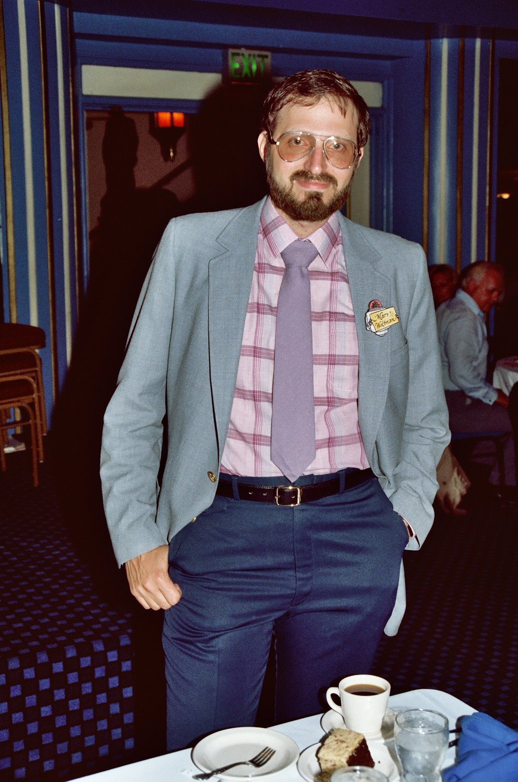 Photo of Marv Wolfman at the San Diego Comic Convention.